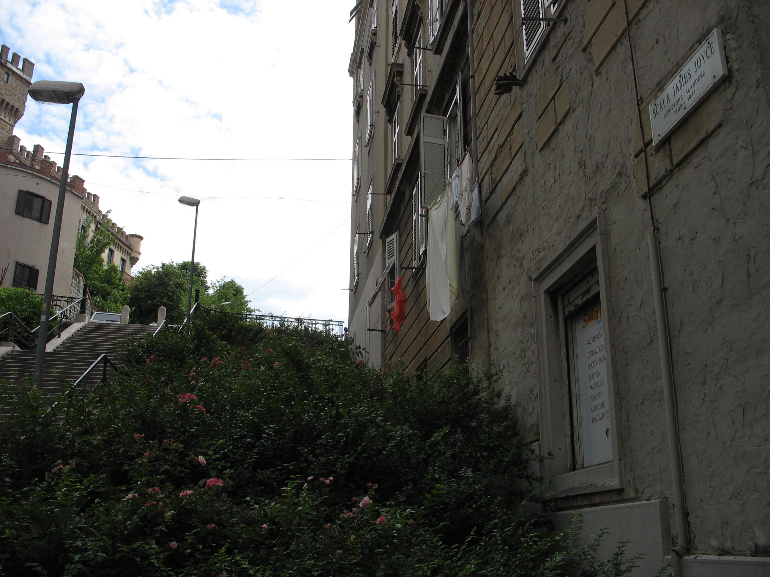 picture taken on Bloomsday 2008 in Trieste.